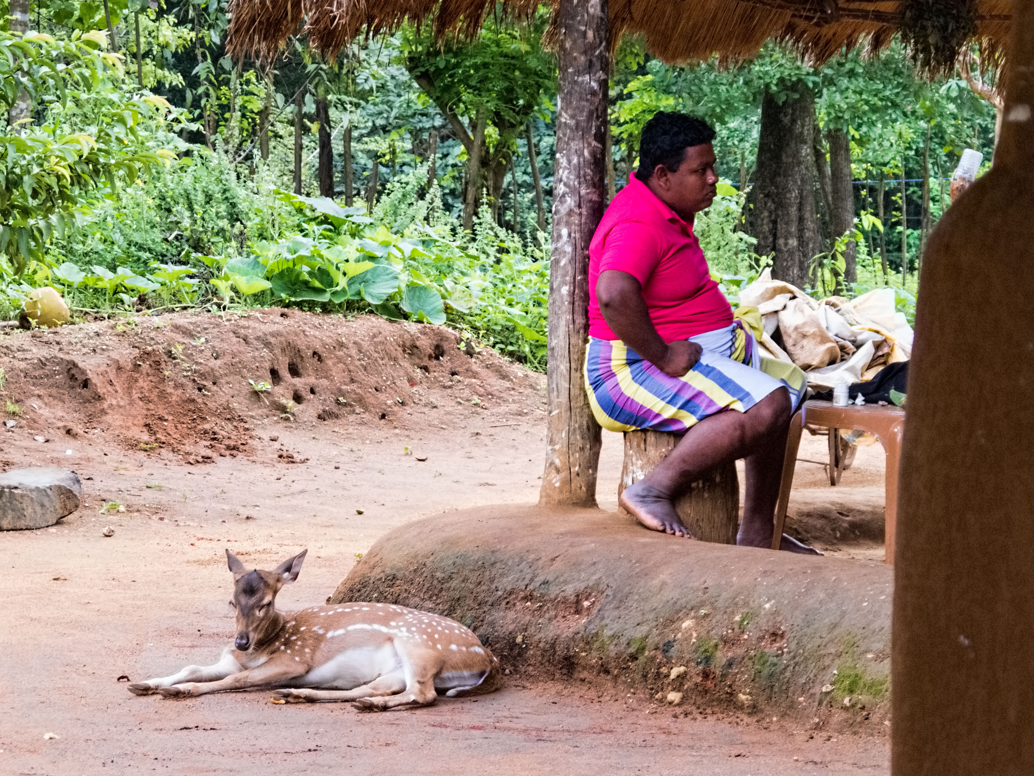 A pet deer at the Veddah village outside the chief’s house. The Veddahs (Hunters) are thought to have arrived in Sri Lanka 18,000 years ago. Today there are about 2,500 Veddahs. They no longer hunt for food as that is prohibited by the government. We see just a handful of Veddahs, all men. On Google Earth: Veddah village 7°24'39.56"N, 81° 6'54.42"E